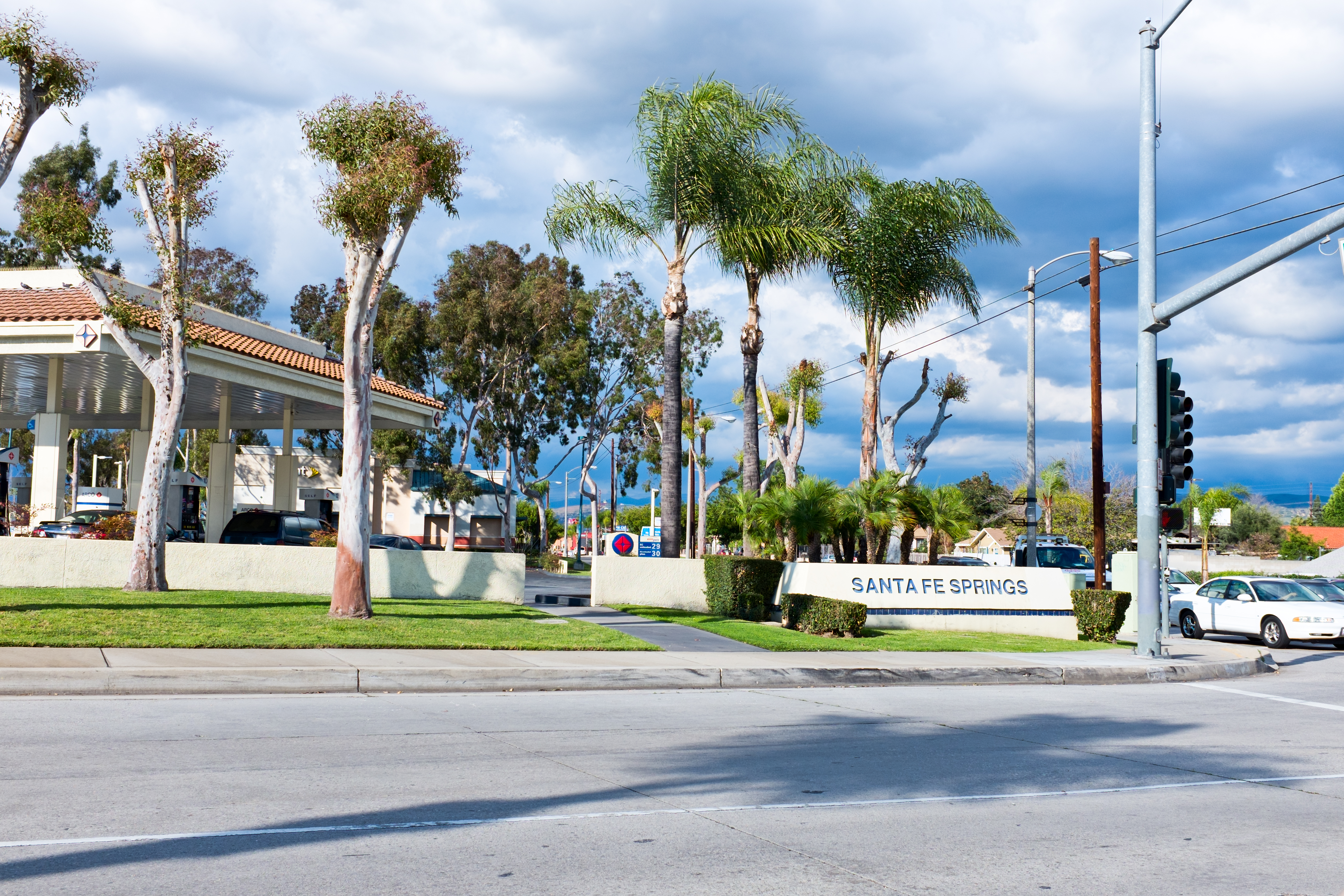 Looking toward the Carmenita area of Santa Fe Springs, California, at Carmenita and Florence Ave.